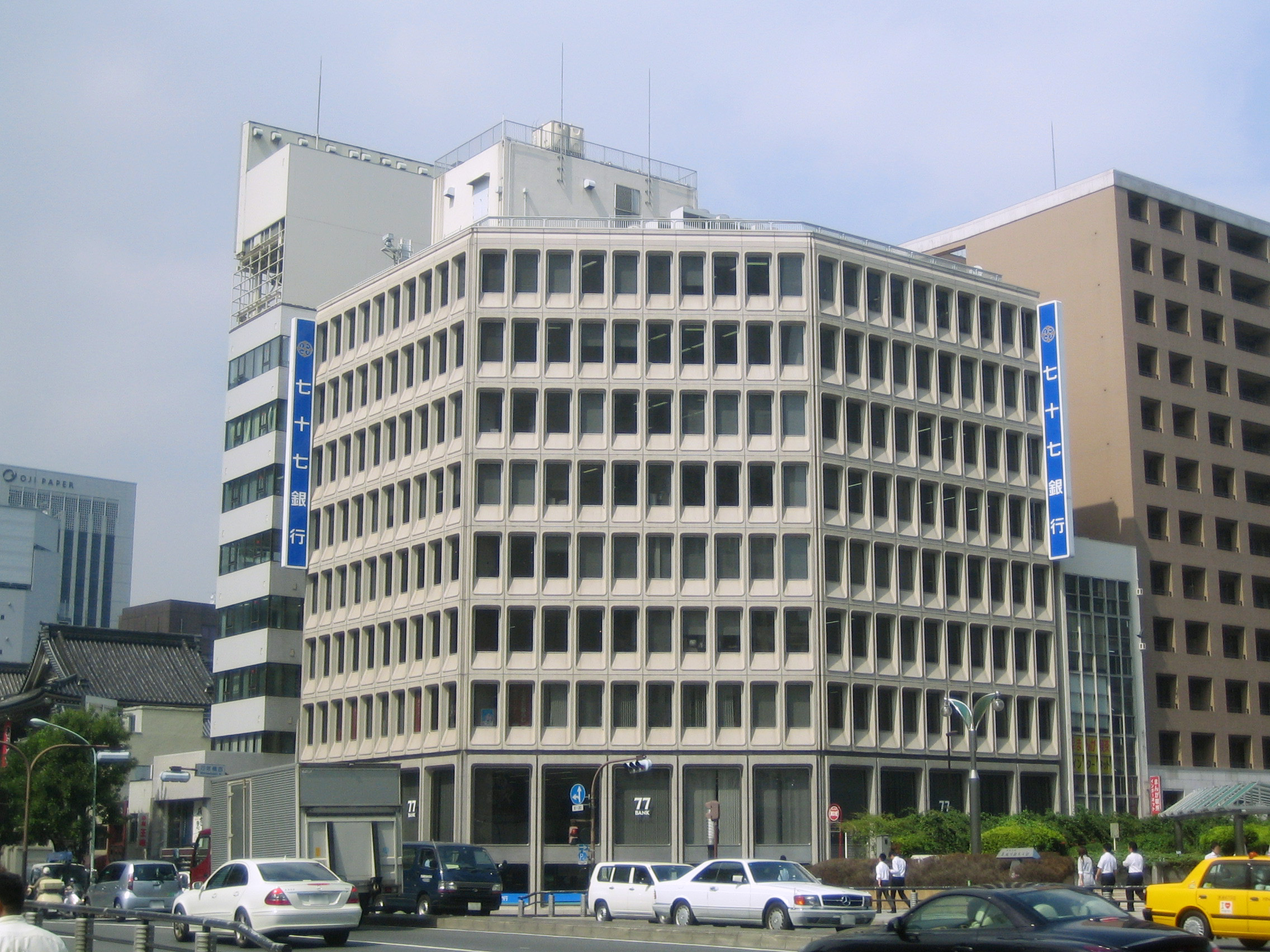 七十七銀行東京支店（七十七ビル）。東京都中央区銀座 Tokyo branch of The 77 Bank (七十七銀行 Shichijūshichi Ginkō), at Ginza, Chuo, Tokyo, Japan